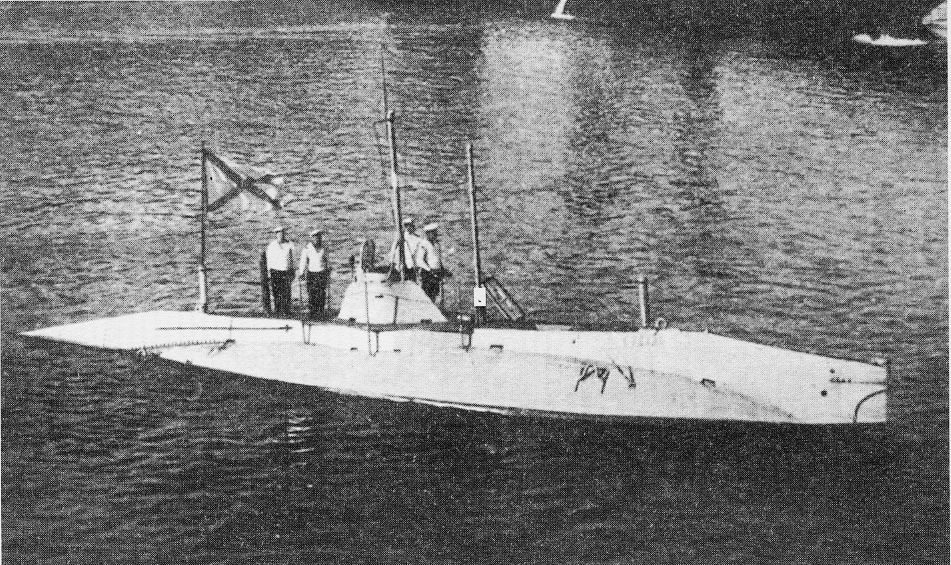 The Imperial Russian submarine «Sudak».